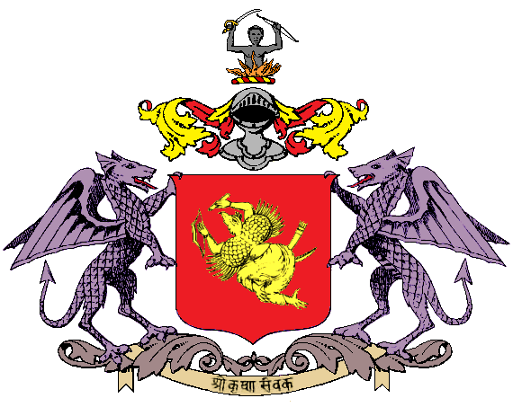 Kota State Coat of Arms This work is in the public domain in India because its term of copyright has expired. The Indian Copyright Act applies in India, to works first published in India. According to The Indian Copyright Act, 1957 (Chapter V Section 25), Anonymous works, photographs, cinematographic works, sound recordings, government works, and works of corporate authorship or of international organizations enter the public domain 60 years after the date on which they were first published, counted from the beginning of the following calendar year (ie. as of 2018, works published prior to 1 January 1958 are considered public domain). Posthumous works (other than those above) enter the public domain after 60 years from publication date. Any other kind of work enters the public domain 60 years after the author's death. Text of laws, judicial opinions, and other government reports are free from copyright. Photographs created before 1958 are in the public domain 50 years after creation, as per the Copyright Act 1911. This file may not be in the public domain outside India. The creator and year of publication are essential information and must be provided. See Wikipedia:Public domain and Wikipedia:Copyrights for more details. This image shows a flag, a coat of arms, a seal or some other official insignia. The use of such symbols is restricted in many countries. These restrictions are independent of the copyright status.